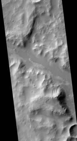 Naktong Vallis, as seen by hirise. Location is 0.1 degrees north latitude and 36.8 degrees east longitude. Image was taken by the Mars Reconnaissance Orbiter's HiRISE. The HiRISE camera was built by Ball Aerospace and Technology Corporation and is operated by the University of Arizona. Image courtesy NASA/JPL/University of Arizona.